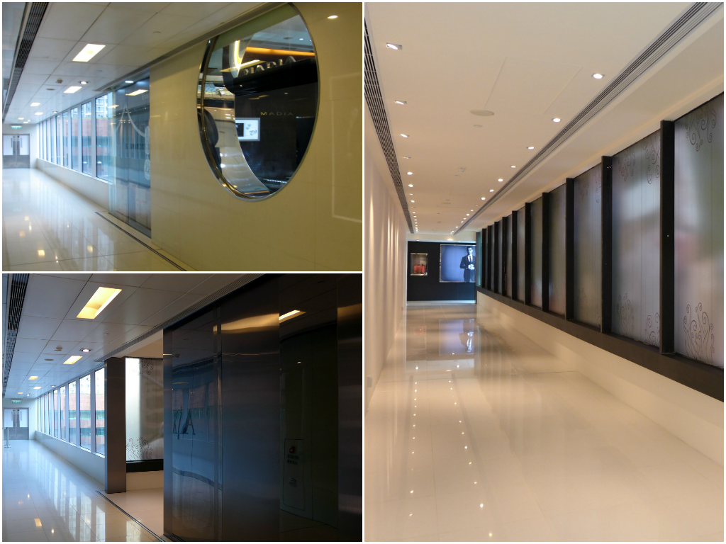 New Town Plaza Level 4 Access before and after.